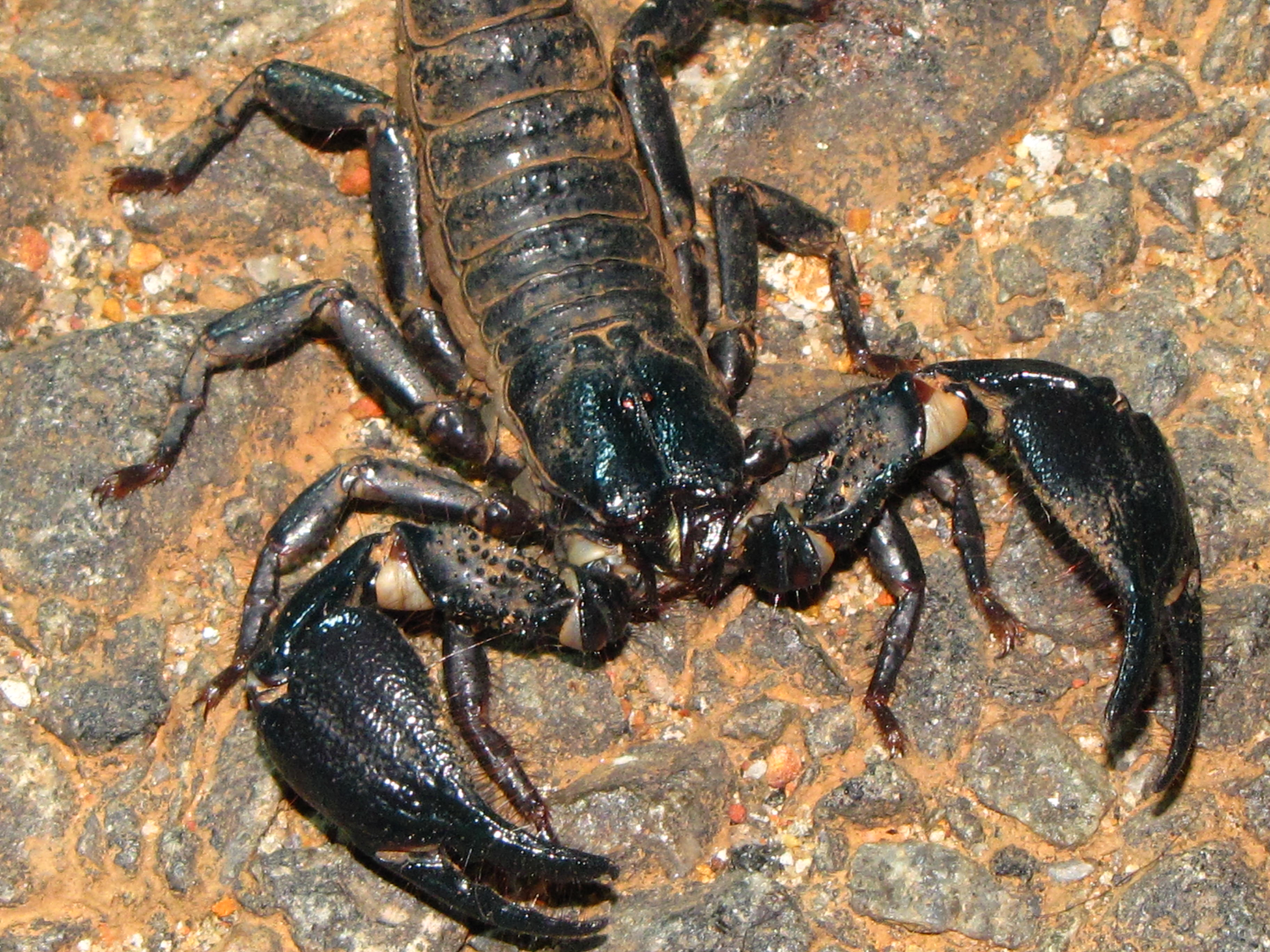 Armed to Kill